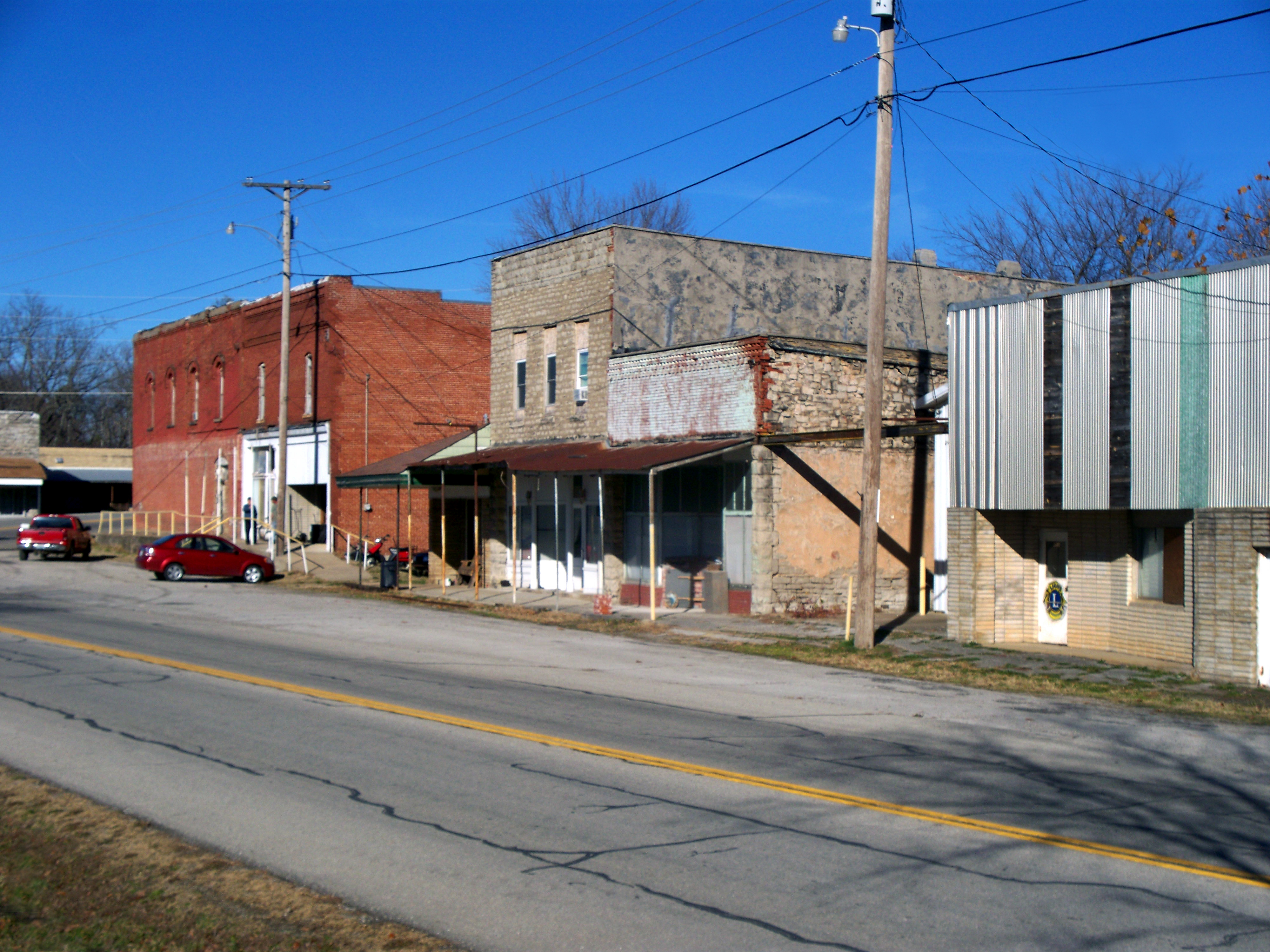 Downtown Seligman, Missouri, November 2012